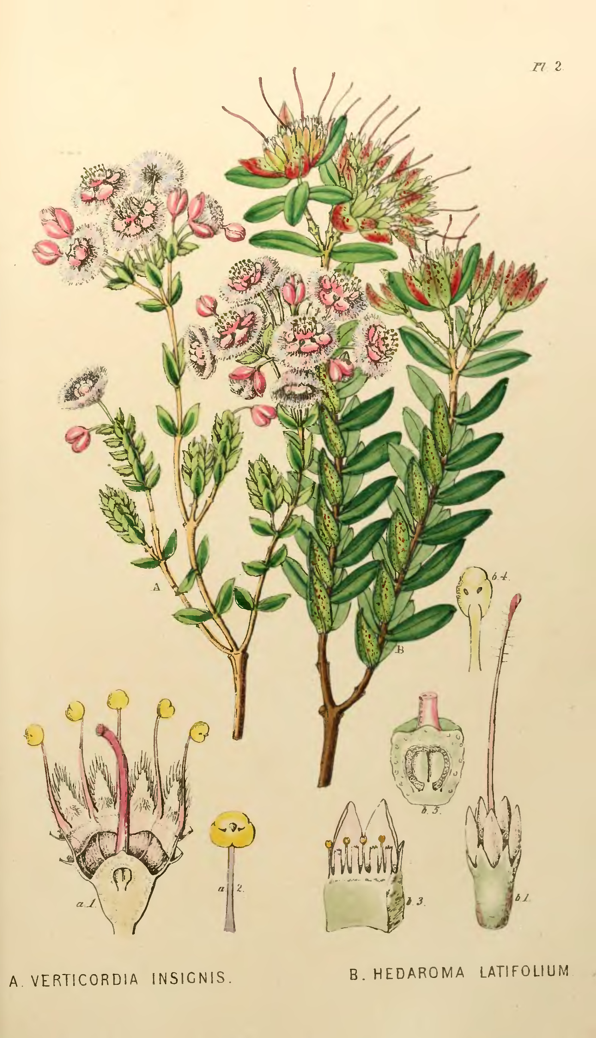 This is a plate from A sketch of the vegetation of the Swan River Colonyby John Lindley. The plants depicted are Verticordia insignis and Hedaroma latifolium (now Darwinia citriodora)